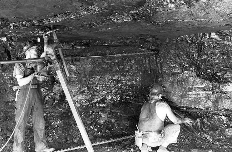 Miners drilling in small spaces in the mine